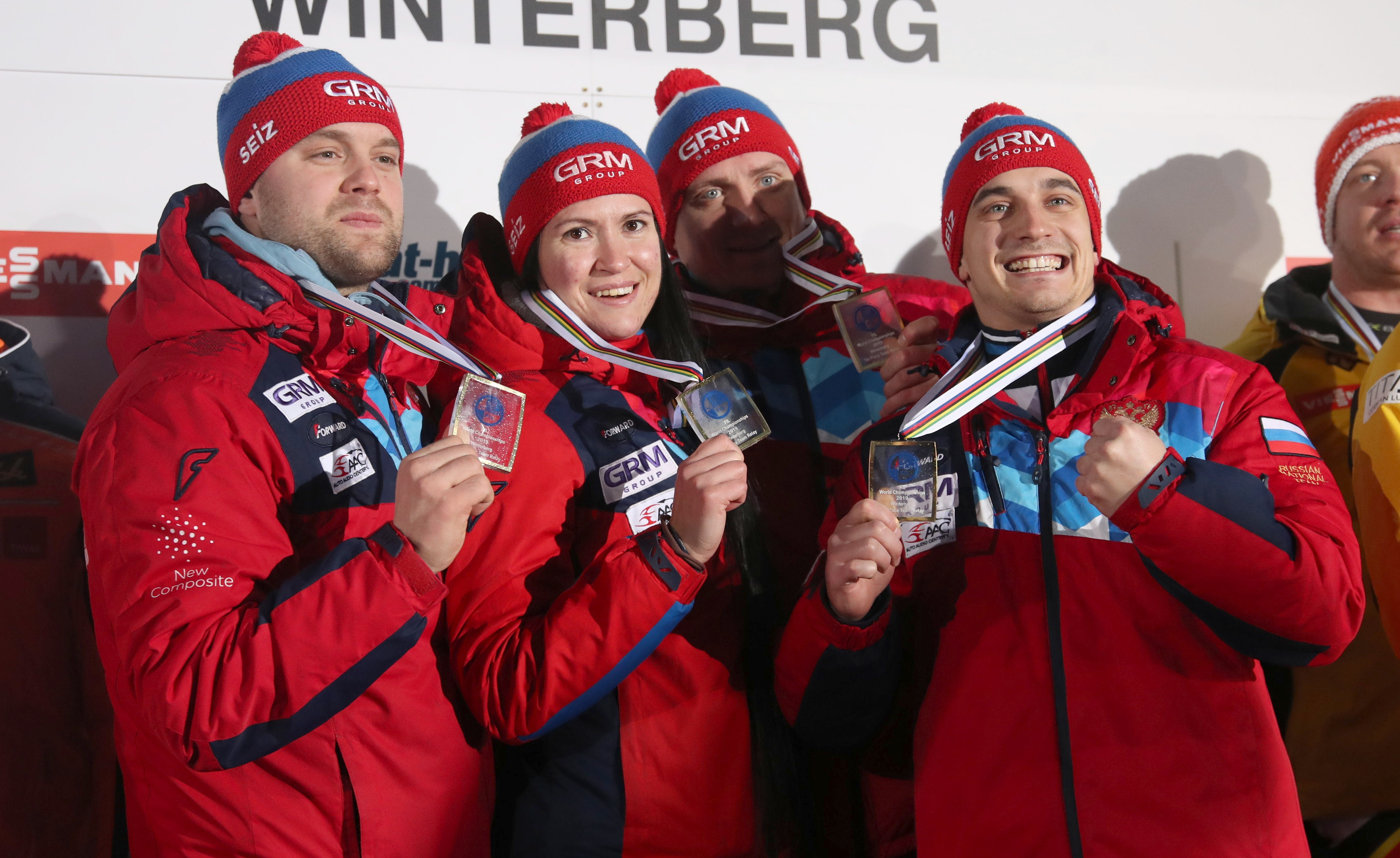 Victory ceremony for the Men's and Team Relay race at the FIL World Luge Championships 2019 in Winterberg